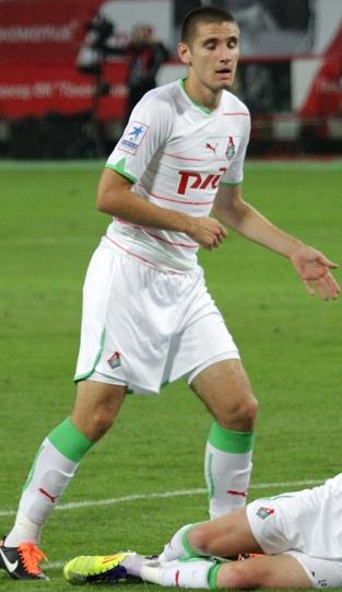 Taras Burlak with FC Lokomotiv Moscow.